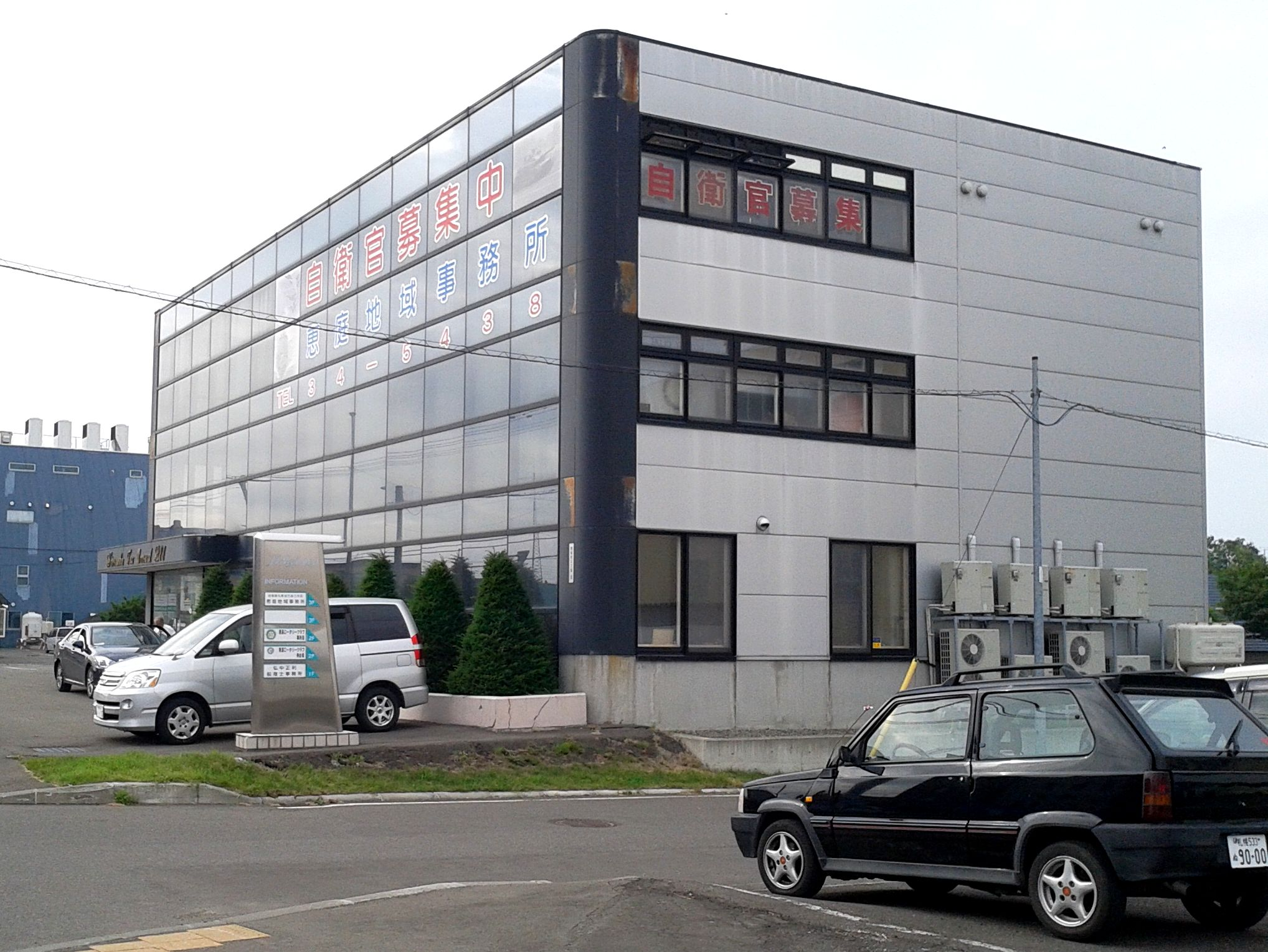 Hironaka Tax Account Building in Eniwa, Hokkaido. The third floor is the JSDF Eniwa recruitment office.